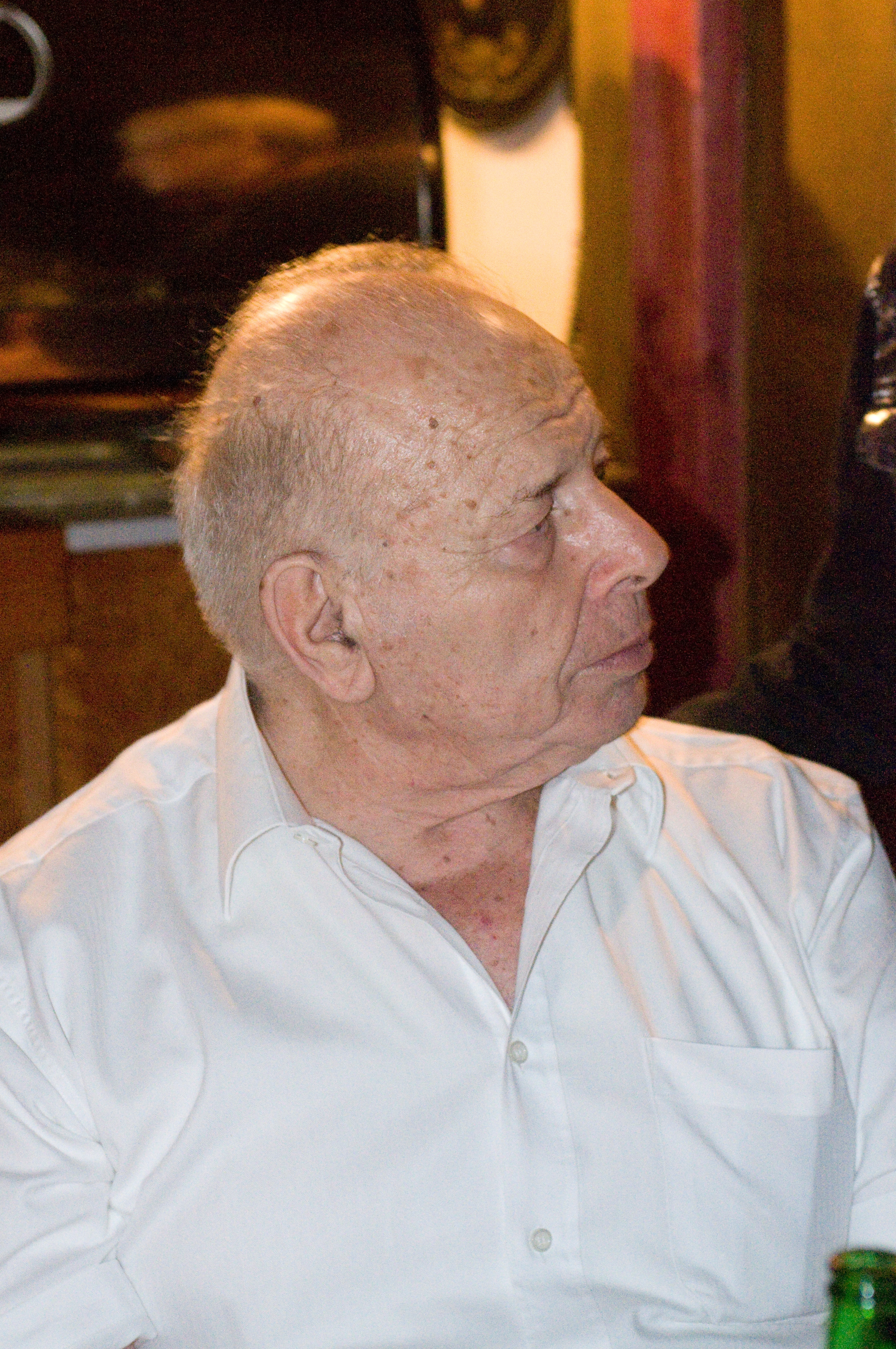 Yoash Tsiddon